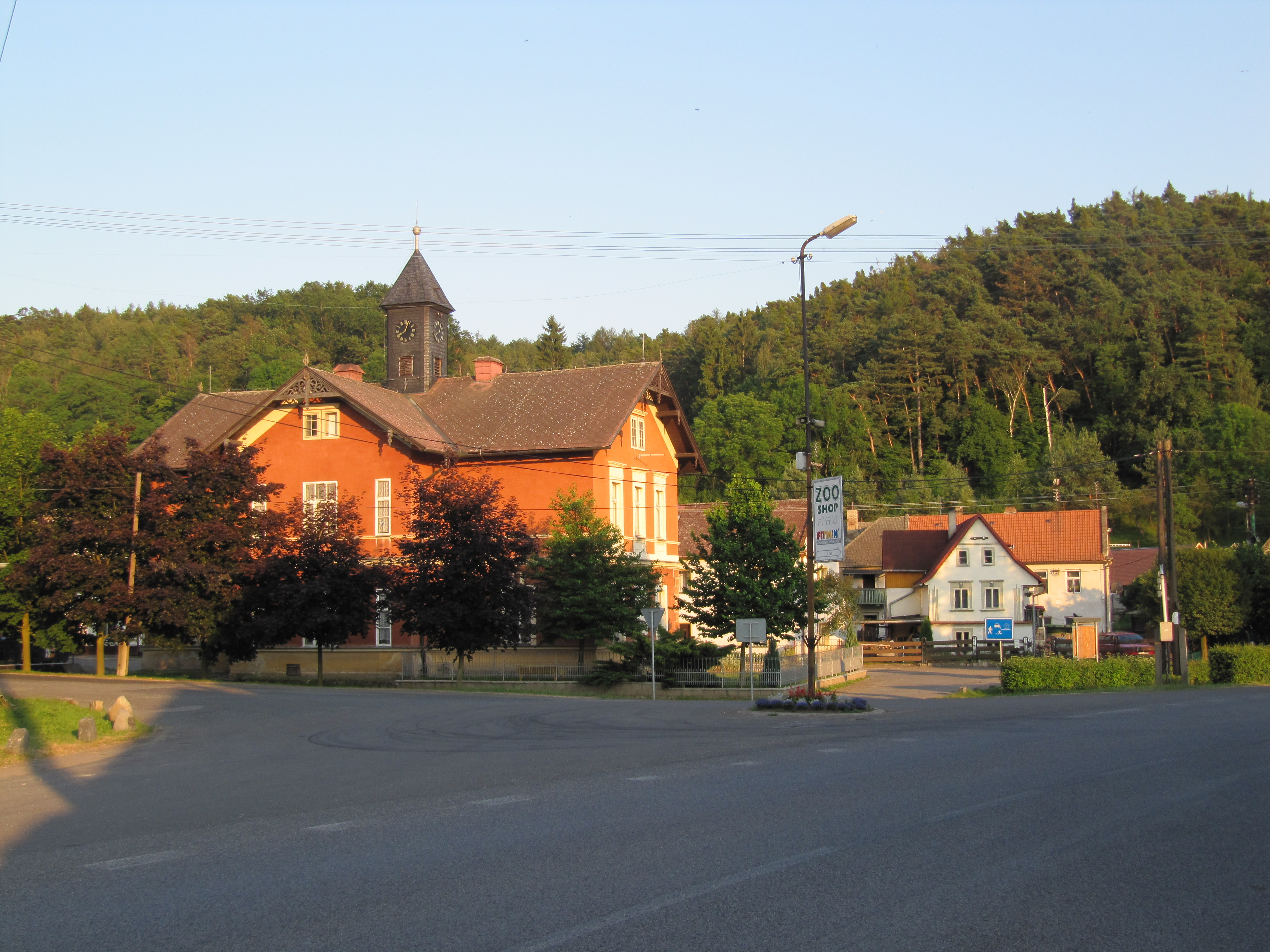 Želízy in Mělník District, Czech Republic. Center.